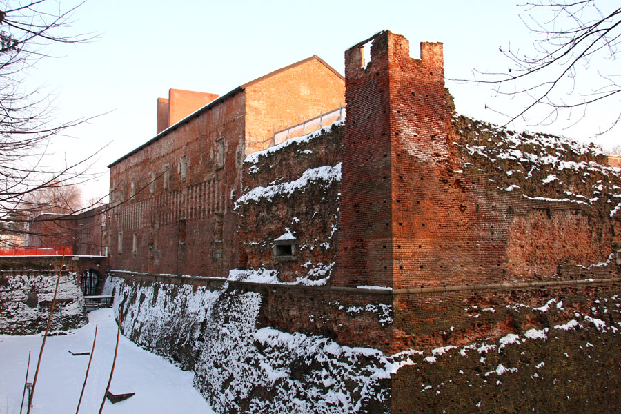 Novara Castle from NW